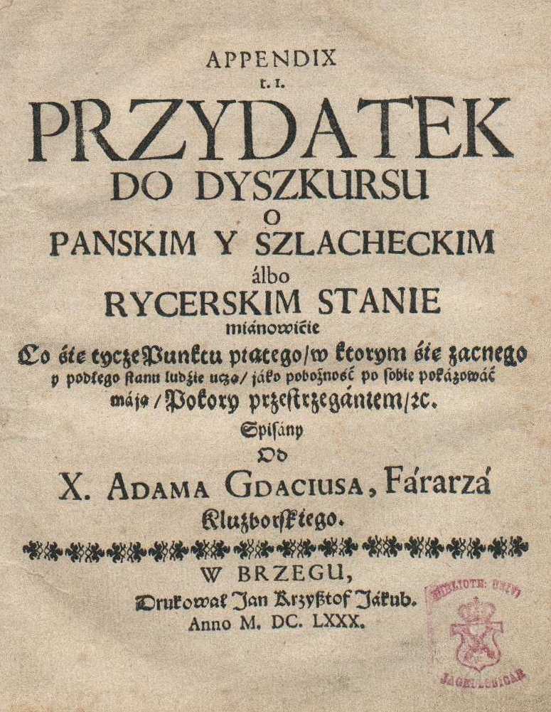 Adam Gdacjusz, "Appendix, to jest Przydatek do dyszkursu o pańskim i szlacheckim albo rycerskim stanie ", Brzeg, 1680.